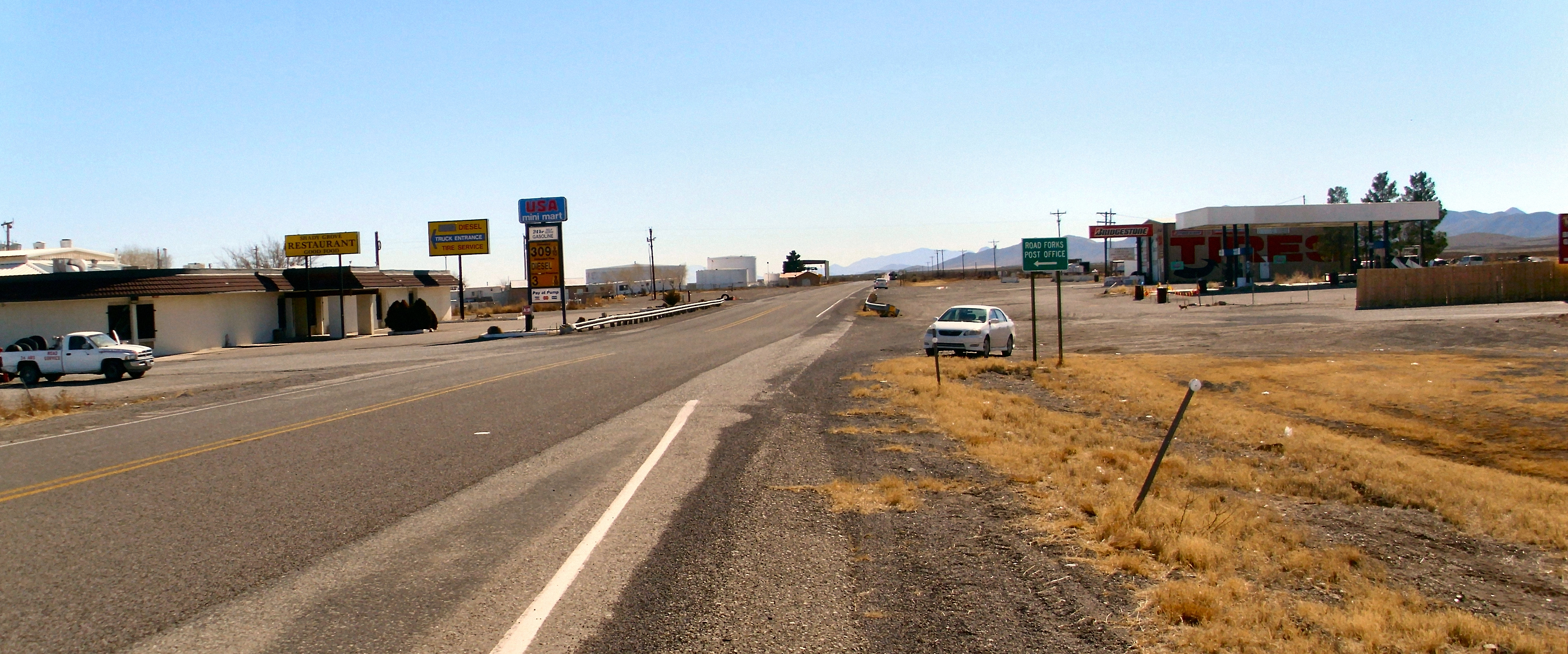 Photograph looking south from Interstate 10 towards Road Forks, the Post Office is to the left (east).